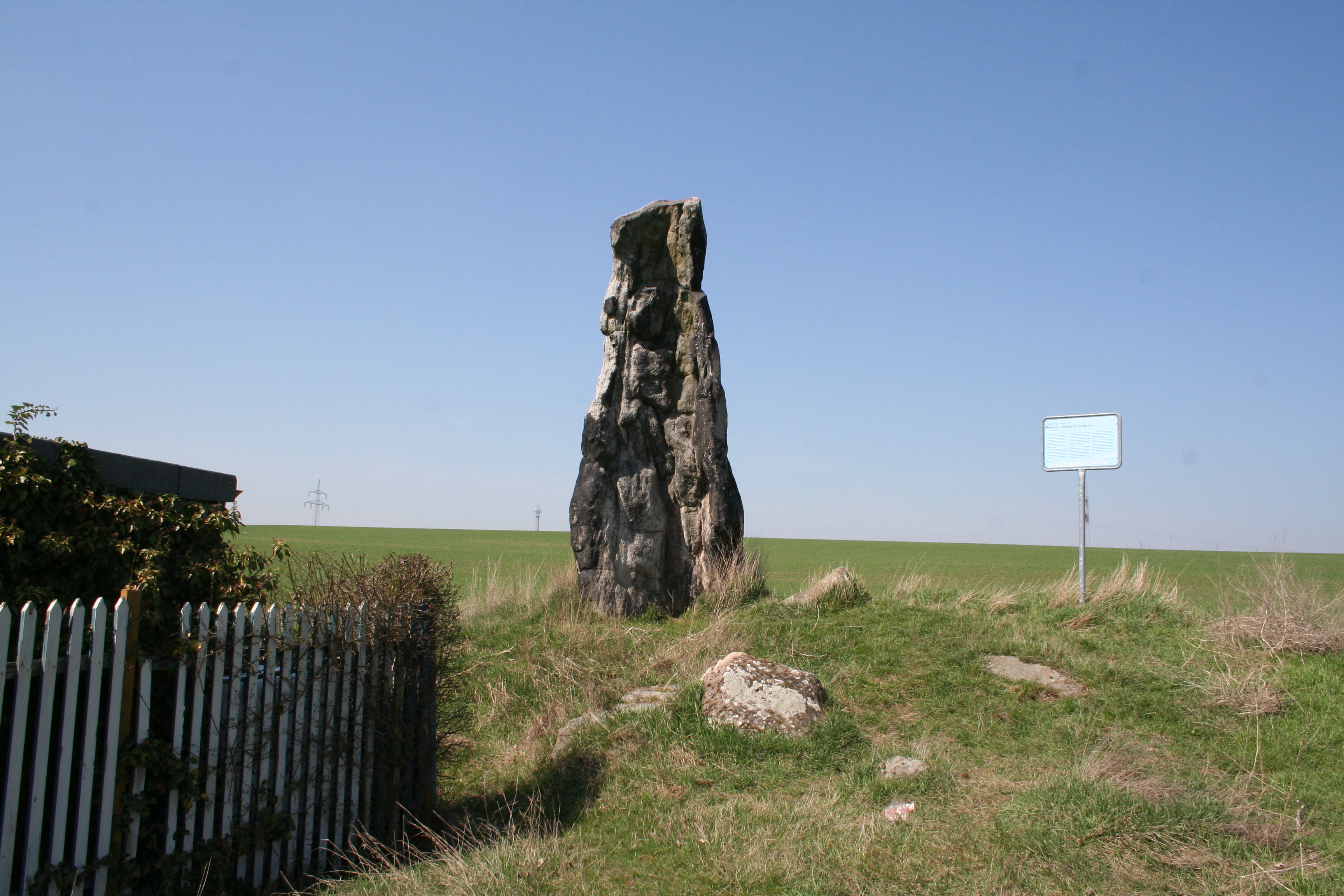 Menhir "Steinerne Jungfrau" ("Stone Virgin") at Dölau, Halle (Saale)